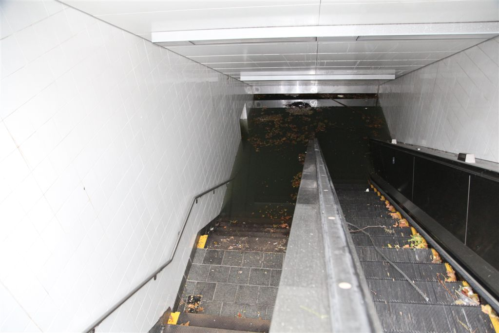 Damage to the MTA New York City Transit system in the aftermath of Hurricane Sandy